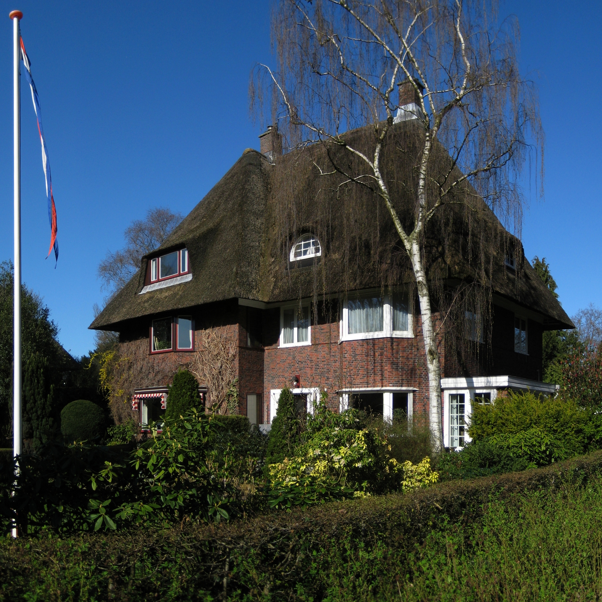 Villa (1926) in the Dutch city of Groningen.